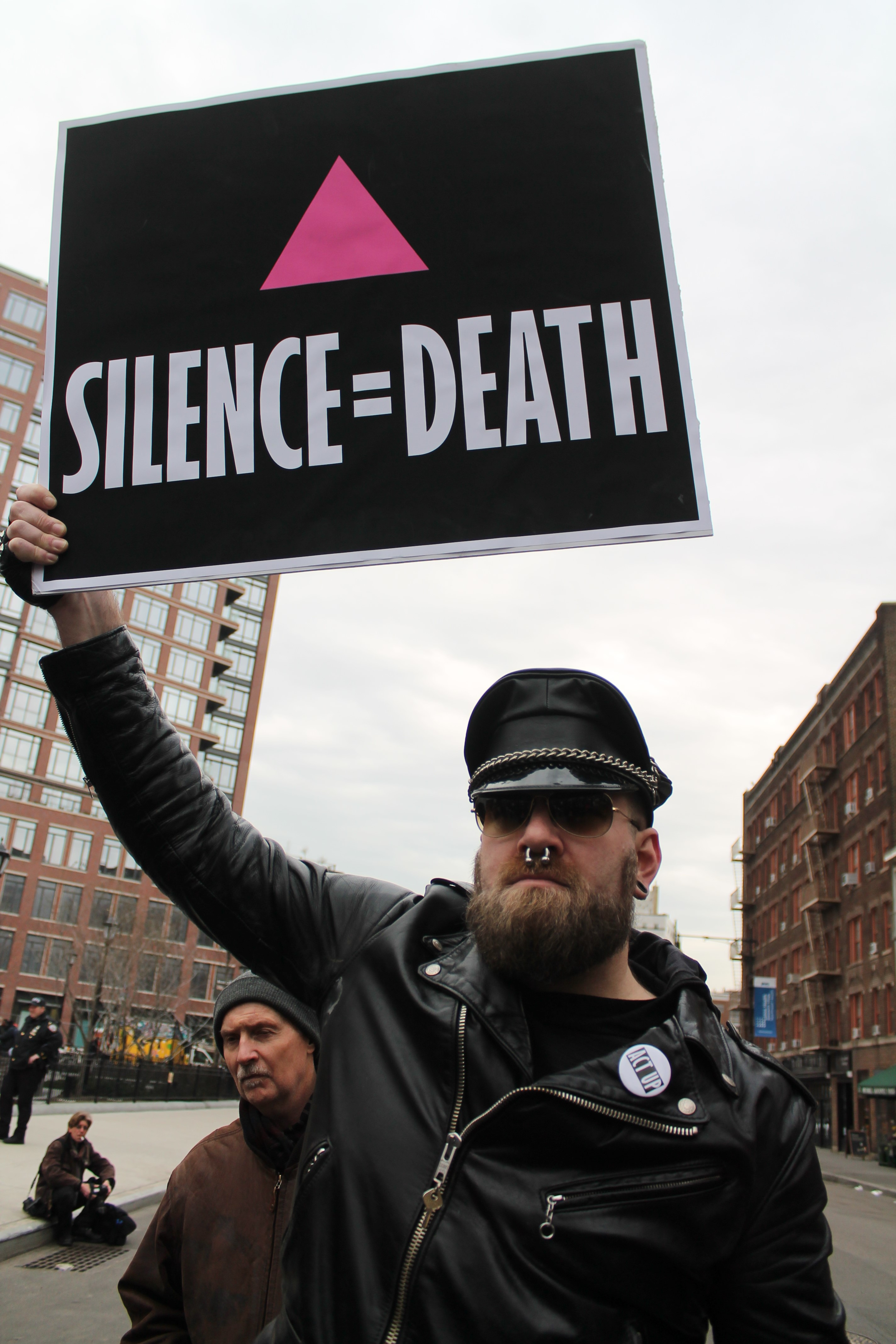 ACT UP 30th Anniversary Gathering Rally at the NYC AIDS Memorial at St. Vincent Triangle Park at 200 - 218 West 12th Street in the West Village in Manhattan, New York City, NY on Thursday afternoon, 30 March 2017 by Elvert Barnes Protest Photography. Follow Thursday, 30 March 2017 ACT UP 30th Anniversary MARCH & RALLY event at Elvert Barnes Protest Photography at